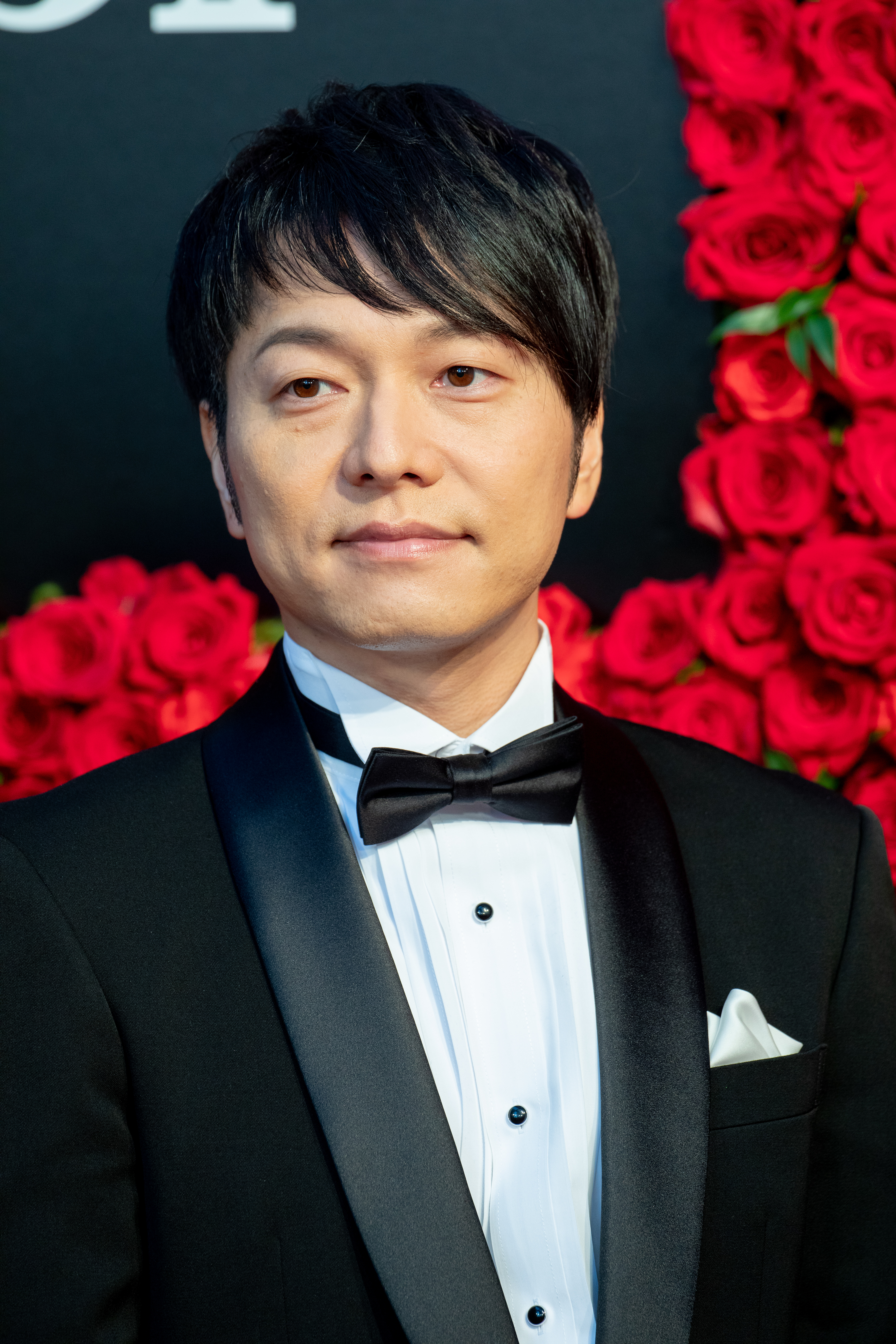 第30回 東京国際映画祭 オープニングセレモニー 野島健児 (PSYCHO-PASS サイコパス Sinners of the System Case.1 罪と罰 & Case.2 First Guardian)